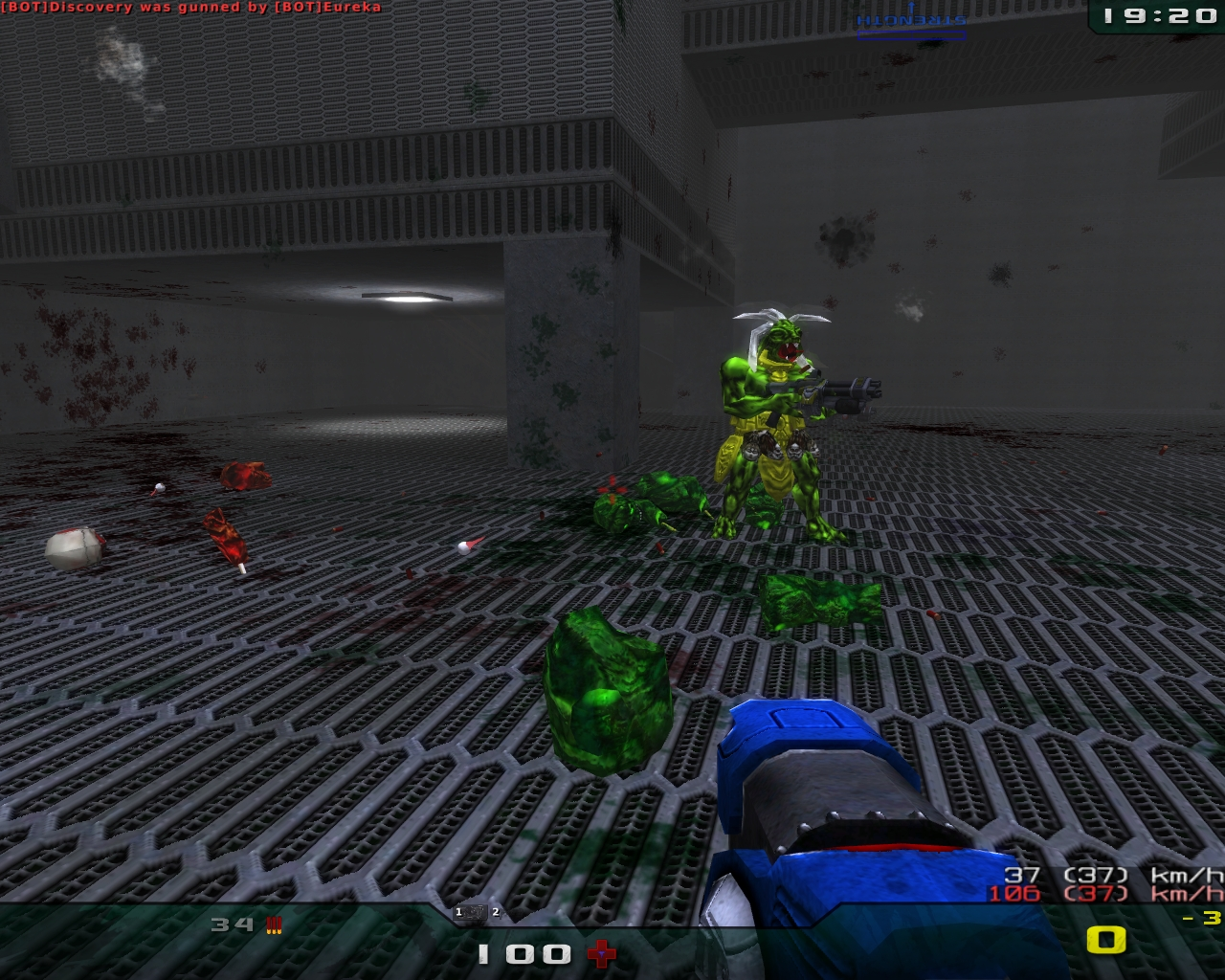 Nexuiz Screenshot